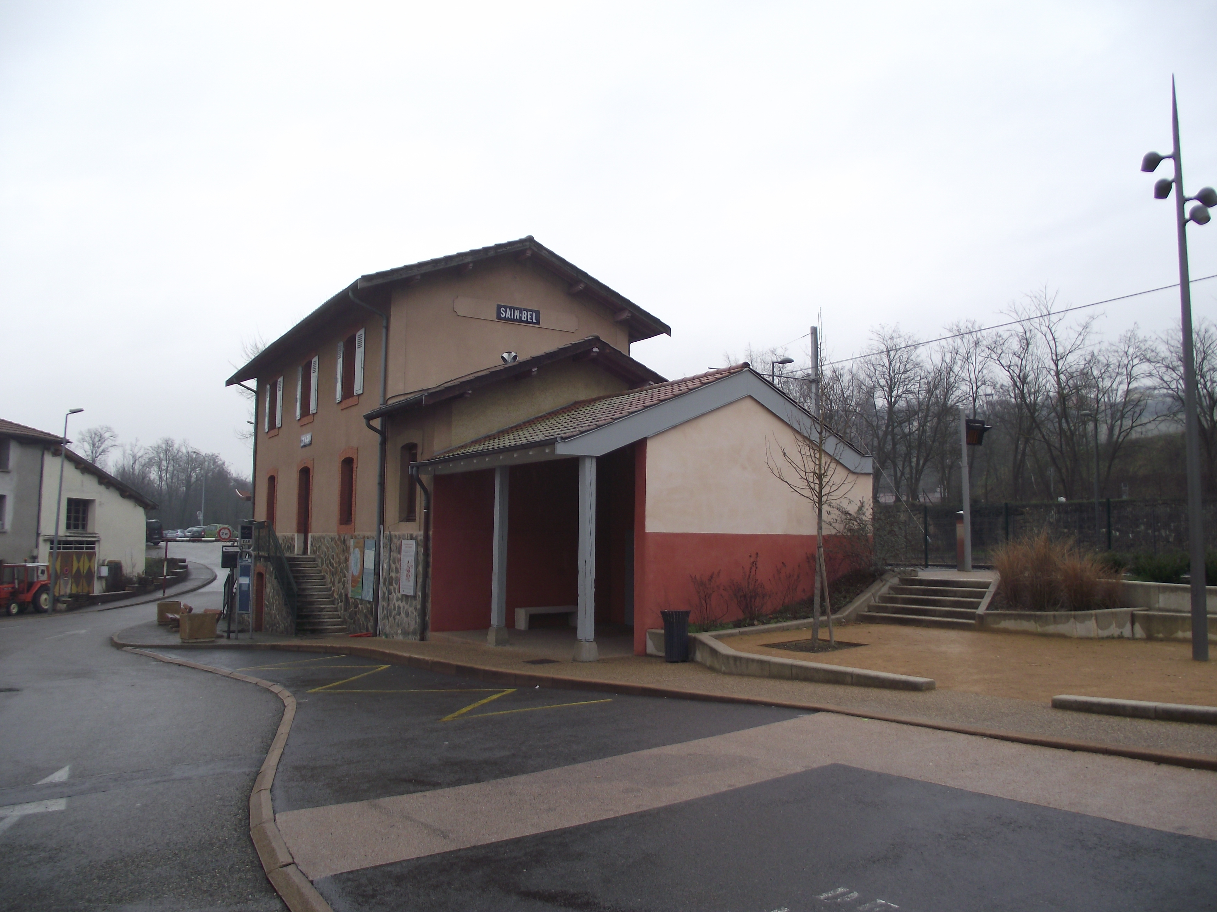 Sain-Bel train station.